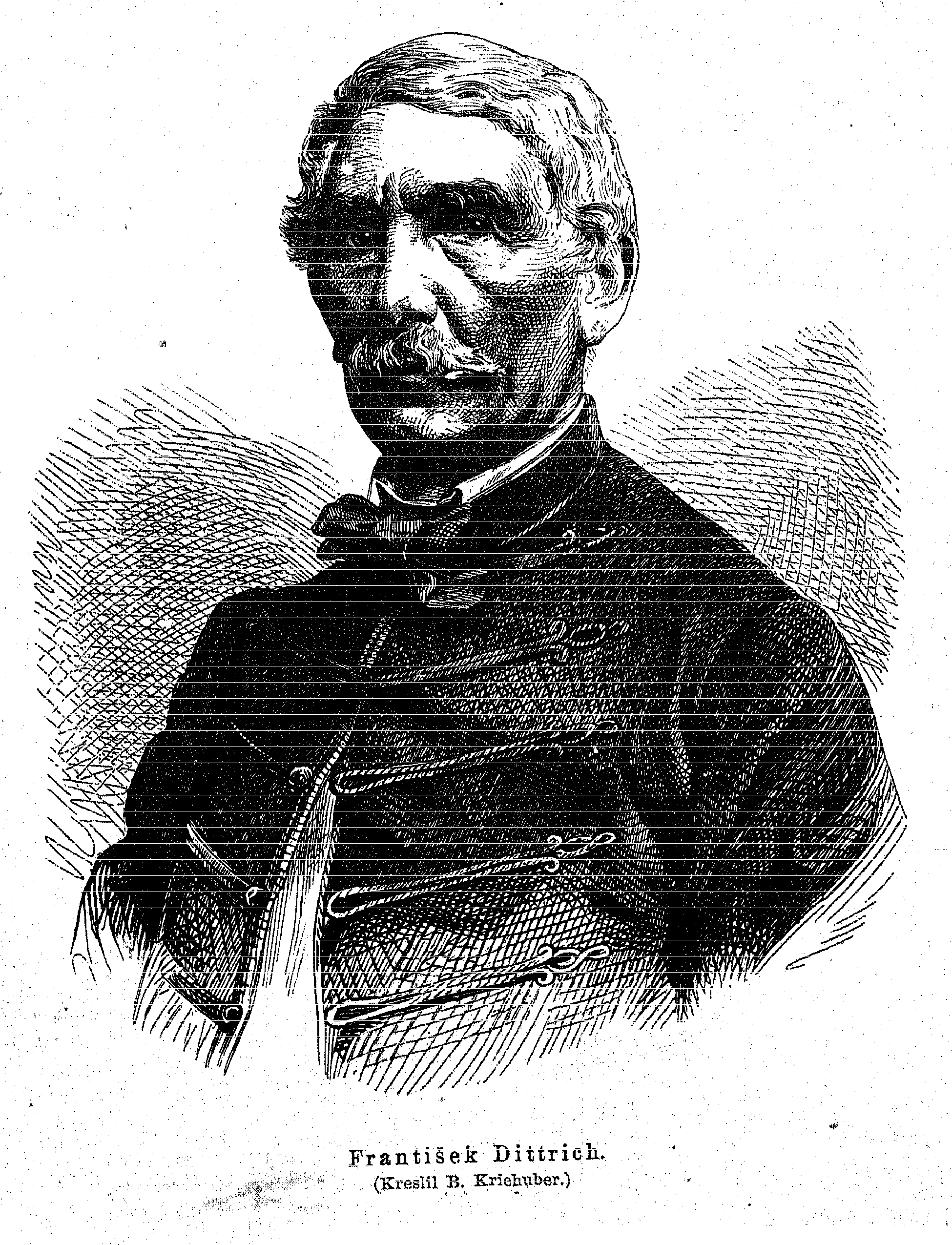 Portrait of František Dittrich (1801–1875)), portreeve (mayor) of Prague 1870–1873.